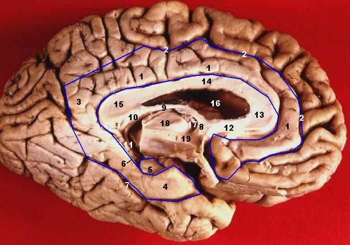 Human brain - inferior-medial view - Limbic system Gyrus cinguli Sulcus cinguli Lobus limbicus Gyrus parahippocampalis Uncus Sulcus hippocampalis Sulcus collateralis Columna fornicis Corpus fornicis Crus fornicis Fimbria hippocampi Corpus callosum, Rostrum Corpus callosum, Genu Corpus callosum, Truncus Corpus callosum, Splenium Septum Pellucidum Foramen interventriculare Thalamus Hypothalamus (font: arial black, size: 12)